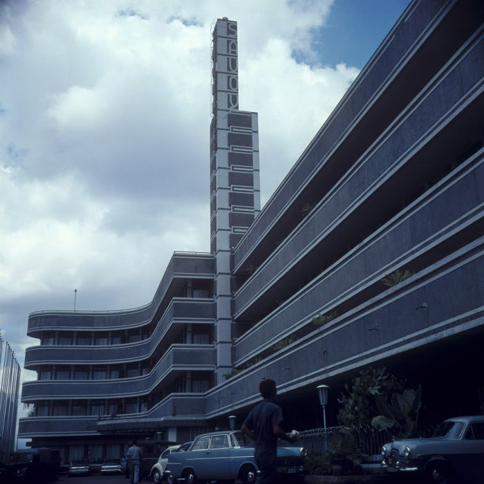 Hotel Savoy Homann